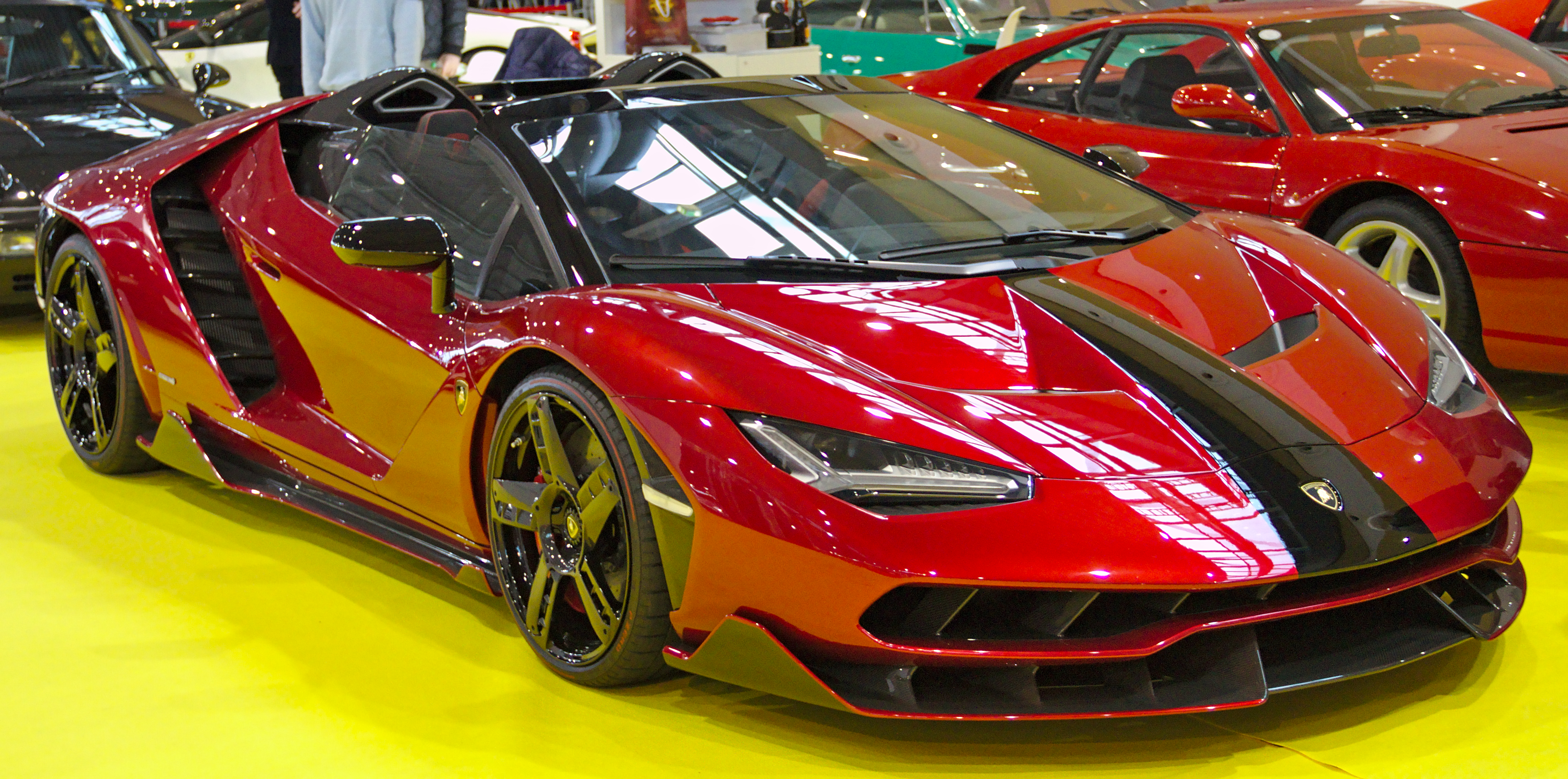 Lamborghini_Centenario_Roadster at Retro Classics 2020